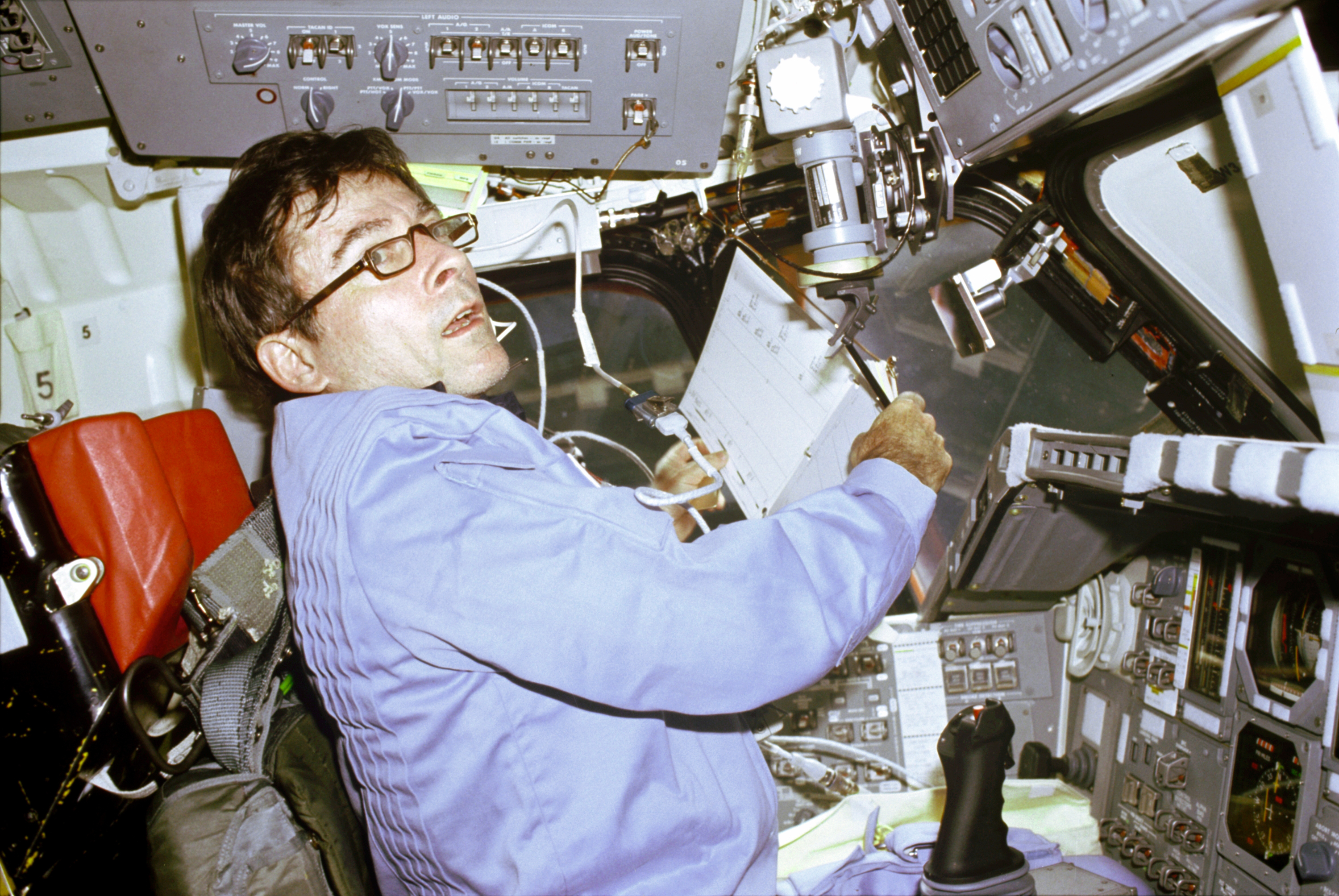 John W. Young, STS-1 mission Commander, prepares to log flight-pertinent data in a loose-leaf flight activities notebook onboard the Space Shuttle Columbia. Young is seated in the commander's station on the port side of Columbia's forward flight deck.